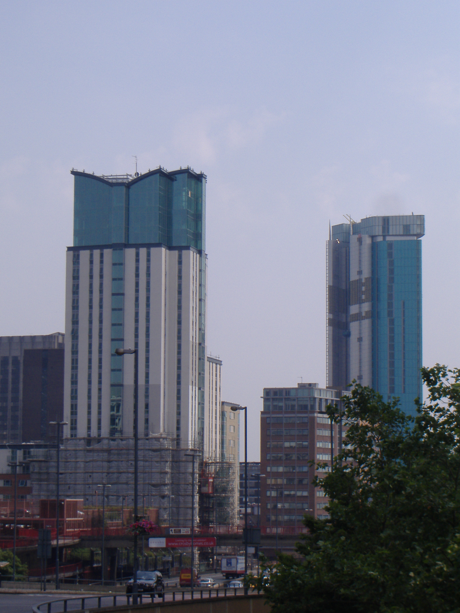 The Orion Building alongside Holloway Circus Tower on Suffolk Street Queensway, Birmingham, United Kingdom.